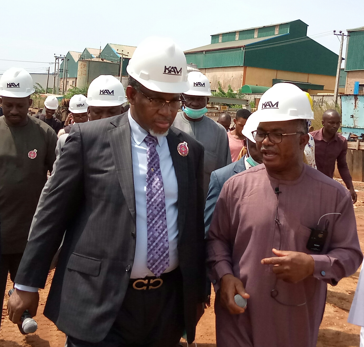 Minister of Mines and Steel, Olamilekan Adegbite, paid working visit to KAM industries